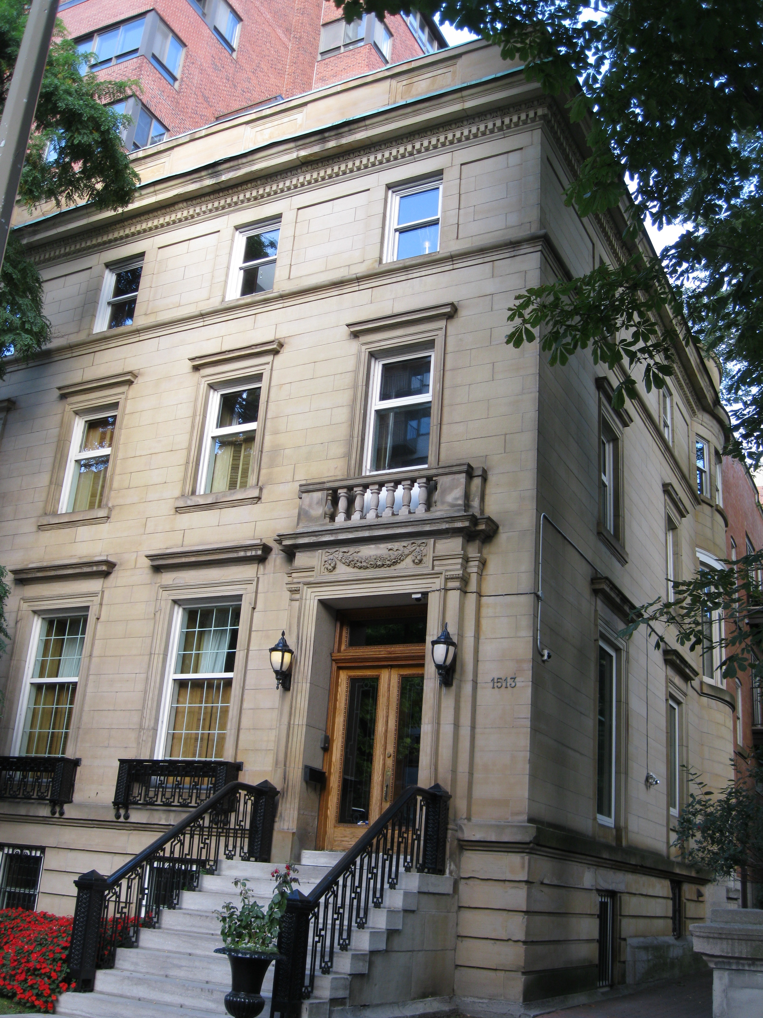 Charles G. Greenshields House (1911), 1515, Docteur-Penfield Avenue, Montreal, Quebec, Canada.